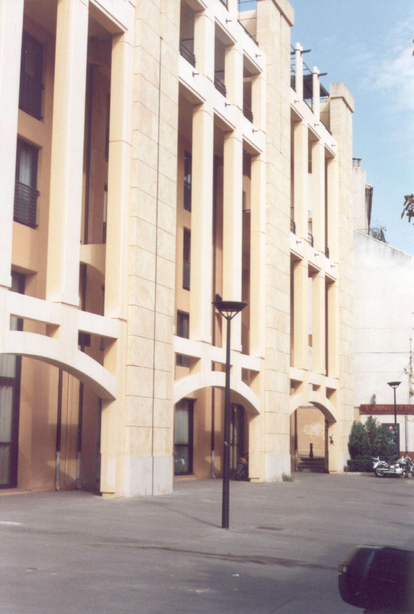 The storefront of the new baths of Aix-en-Provence, France.